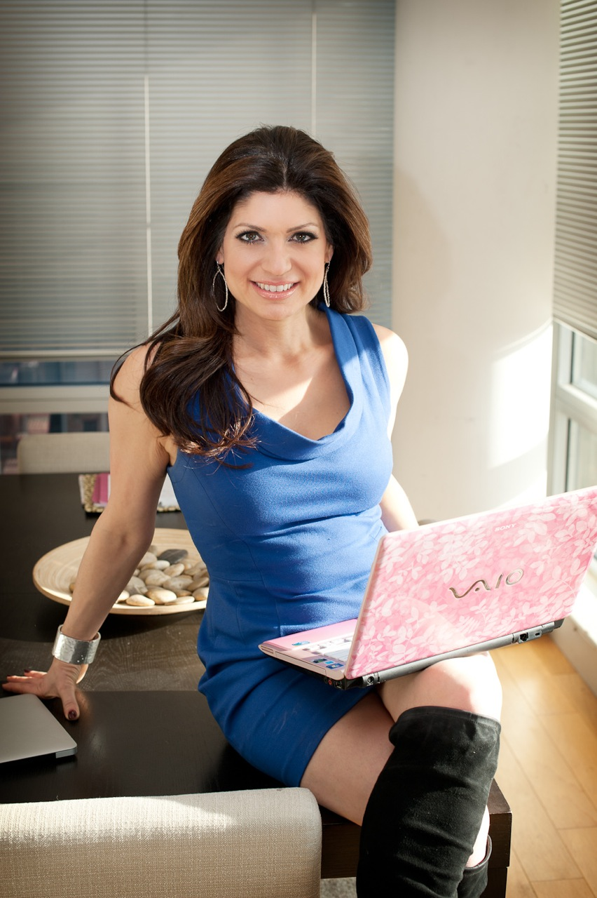 Tamsen Fadal